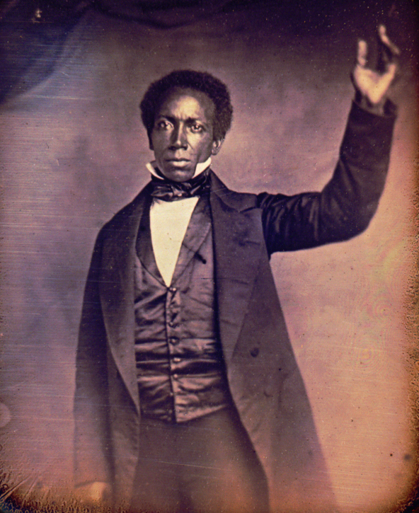 Daguerreotype of Edward James Roye, 5th president of Liberia